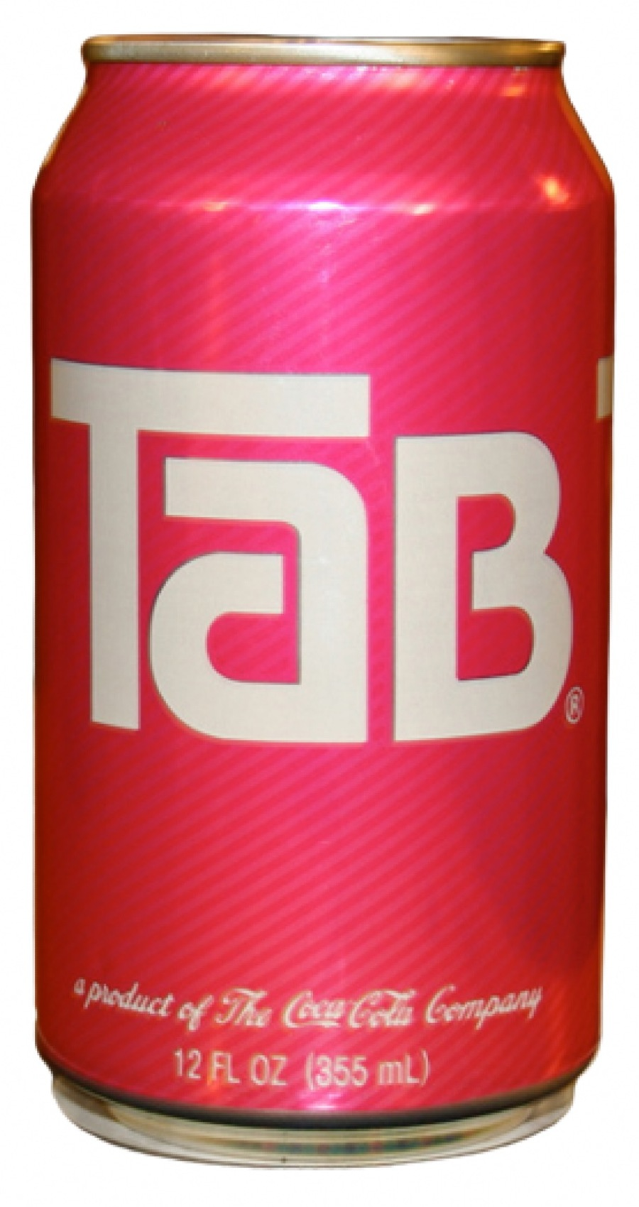 A 355 ml (12 US fl. oz) can of TaB cola. Appears to be contemporary design as of 2010-11-20, going by Coca Cola's current website.